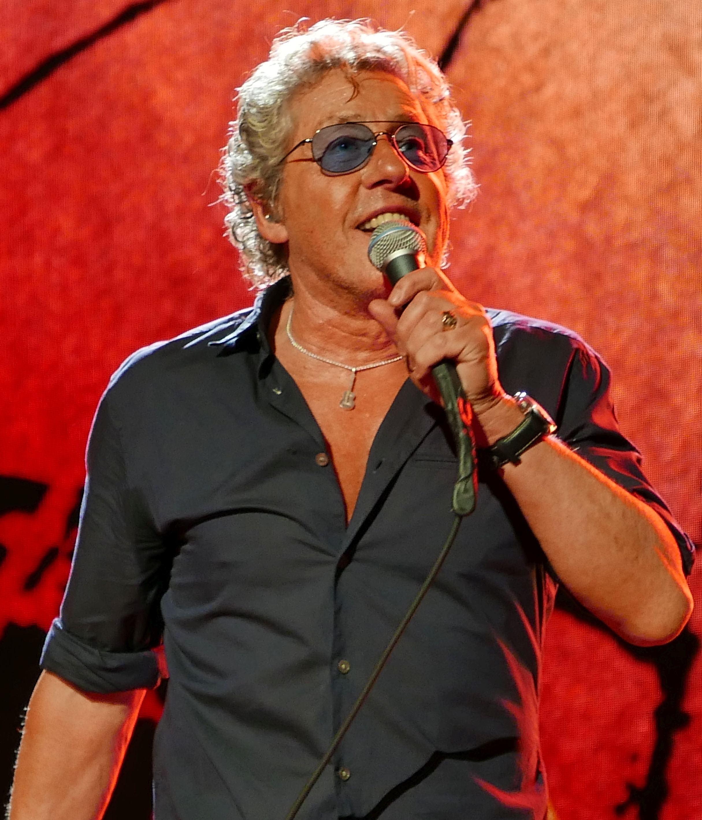 Roger Daltrey, performing with The Who, Oracle Arena, Oakland -- May 19th, 2016